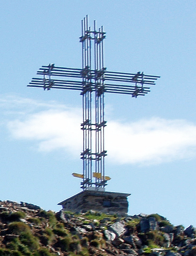 Massa del Turlo (VC/VB, Italy): the cross on the top